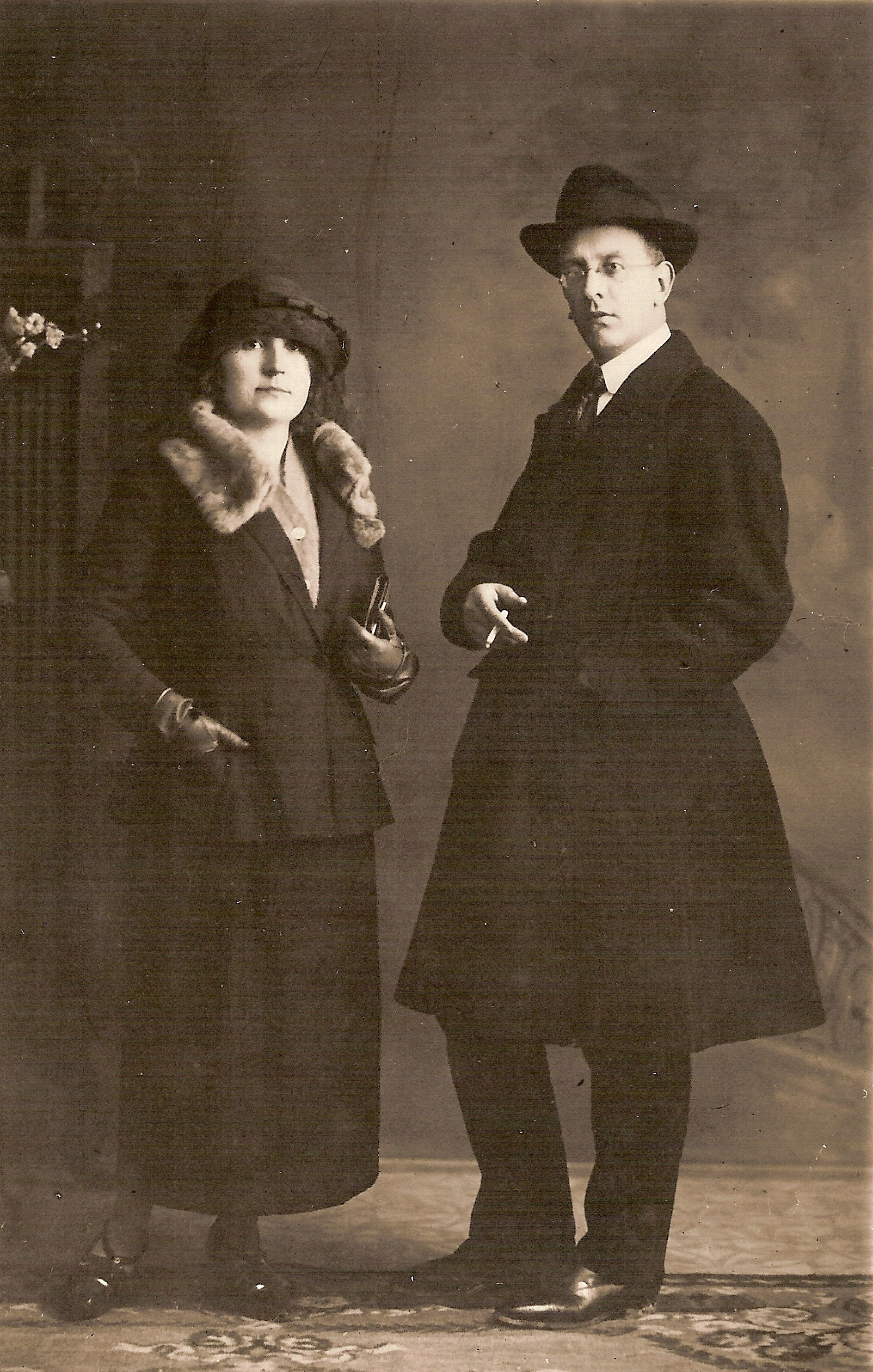 Portrait of Manuel Brunet and his wife, Maria Teresa Mayor